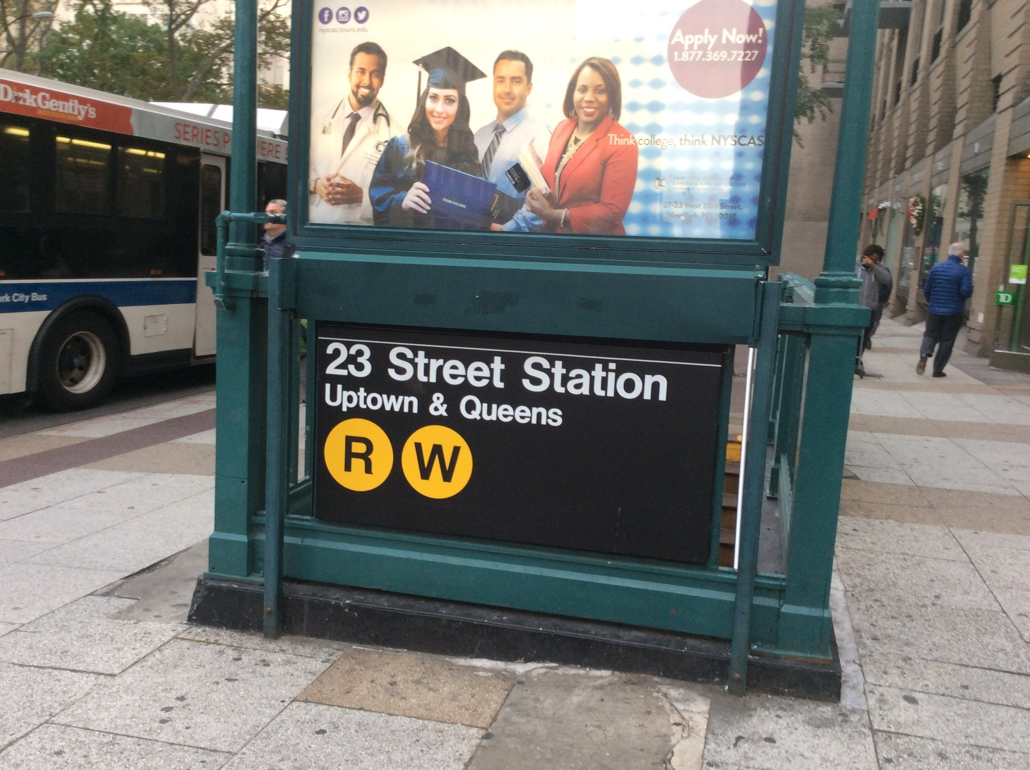 The entrance to the 23rd Street (BMT Broadway Line) subway station in October 2016, with the subway entrance's sign having been replaced recently.